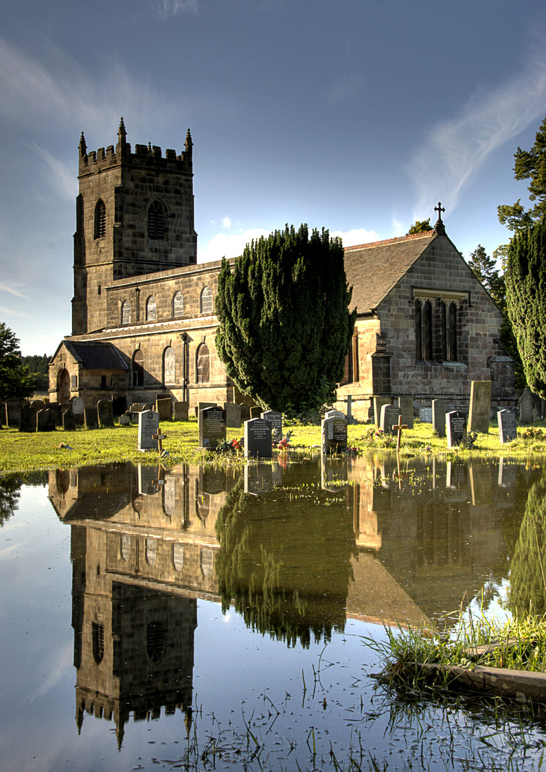 All Saints' parish church, South Wingfield, Derbyshire, shown from the southeast in a high contrast HDR zoom photograph